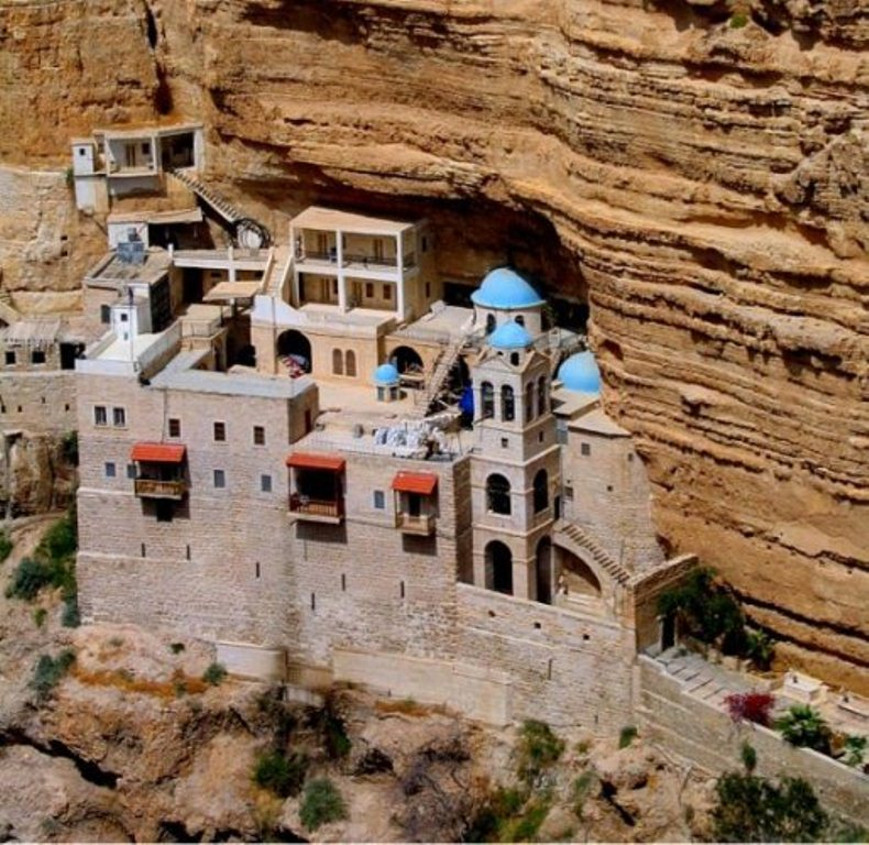 Religion in Palestine